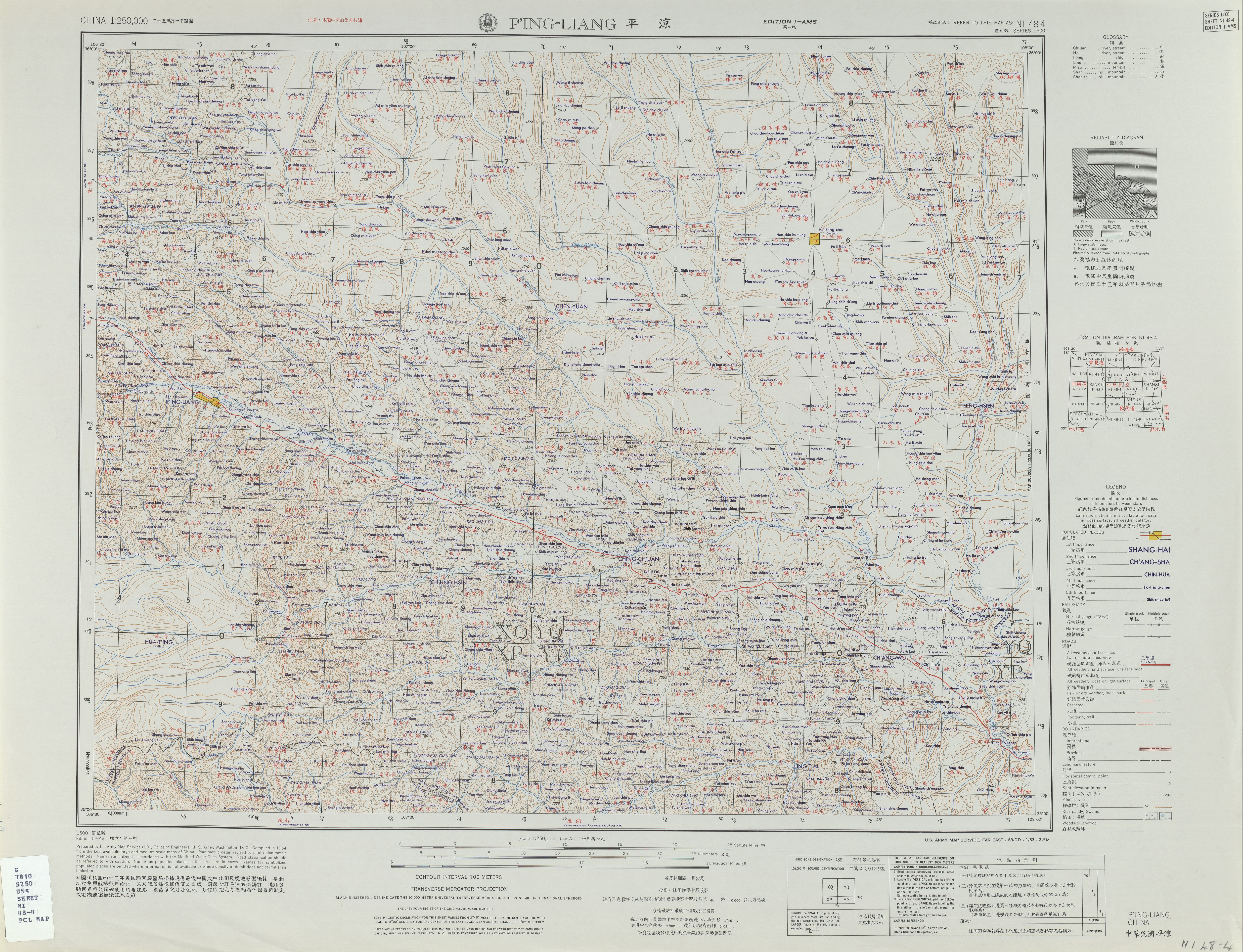 China AMS Topographic Maps